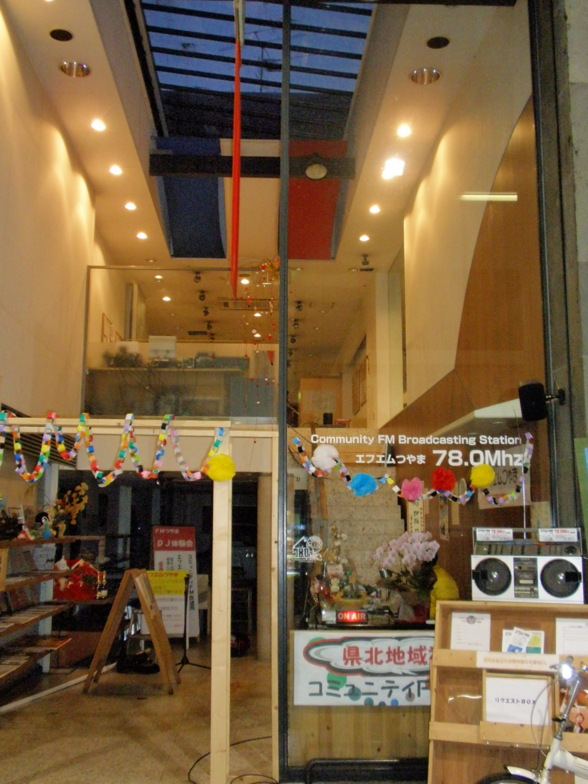 Specified Nonprofit Organization Tsuyama Community FM, Tsuyama, Okayama.